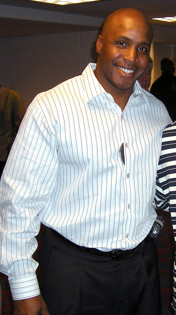 San Francisco Giants outfielder Barry Bonds poses with Airman 1st Class Carlos Oliveras May 8 after he caught Bonds' home run ball #713. VIRIN: 060509-F-0000S-005